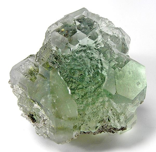 Fluorite Locality: Naica Mine, Naica, Municipio de Saucillo, Chihuahua, Mexico (Locality at ) Size: 4.7 x 4.5 x 3.9 cm. This beautiful fluorite specimen is from the recent re-mining at Naica, which turned up some specimens of terrific quality. With this specimen, you see the typical extremely complex faces, with some rather distinct cuboctahedrons emerging from the background of microfaces. These euhedral areas provide clear windows into the transparent, light green interior of the compound crystal. The crystal is complete all around, with a contact face underneath where you can still see a bit of sphalerite.